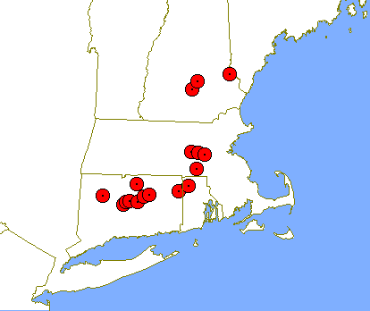 Locations of reported damage during the Four-State Tornado Swarm of August 15, 1787. Not all of these necessarily represent tornadoes, and a few individual tornadoes stuck multiple locations. Locations from: Grazulis, Thomas P (July 1993). Significant Tornadoes 1680–1991 Ludlum, David McWilliams (1970). Early American Tornadoes 1586–1870